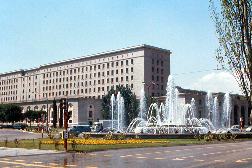 New government buildings, at Plaza de San Juan de la Cruz. I beleive they are on Paseo de la Castellana..